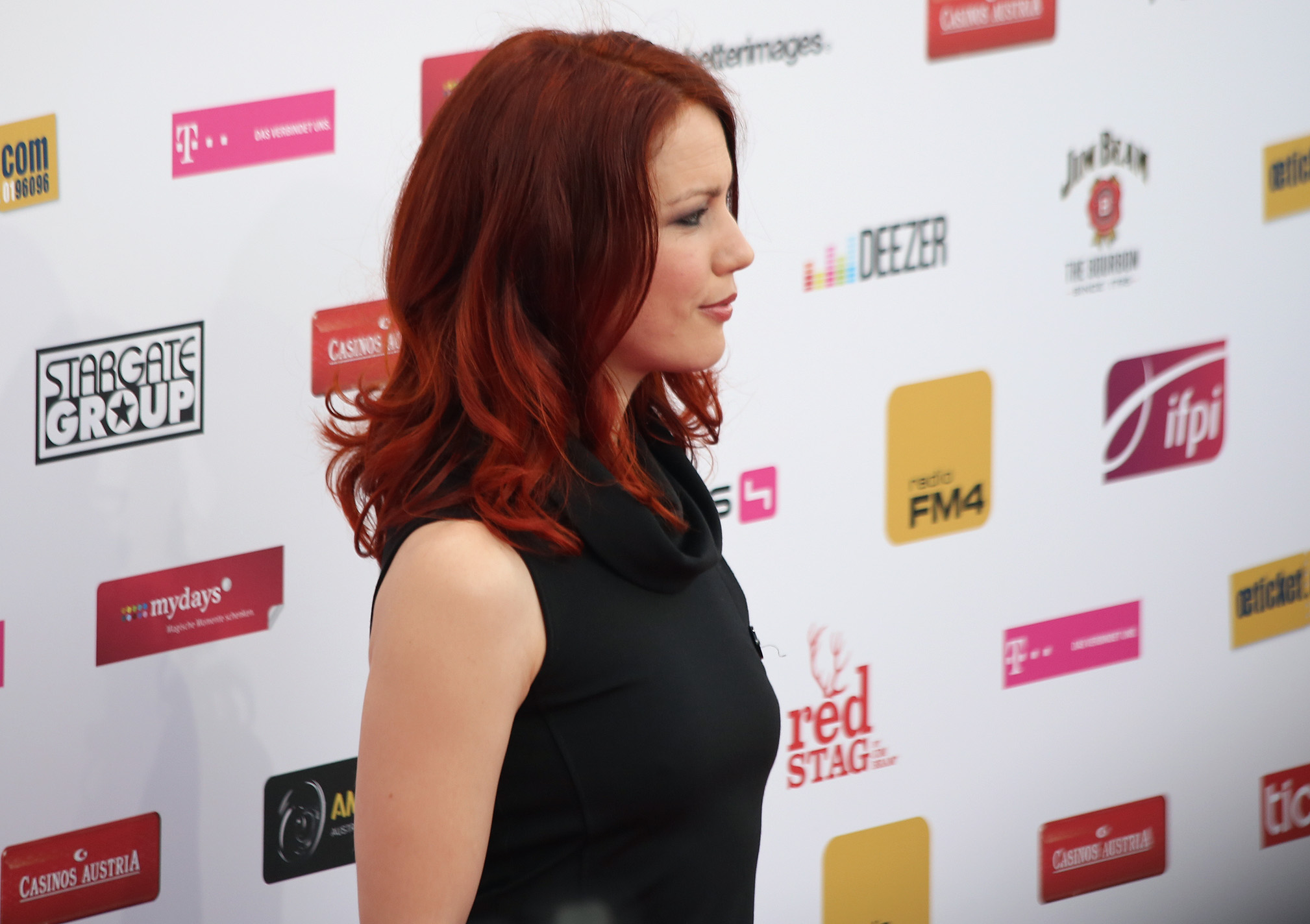 GuGabriel (Gudrun Liemberger) at the Amadeus Austrian Music Award at Volkstheater in Vienna